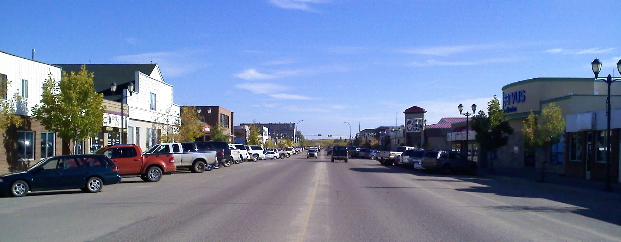 101 Avenue (Main Street), Lac La Biche, Alberta.